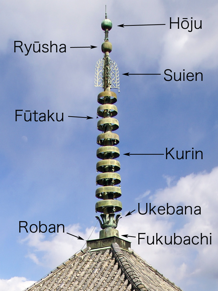 Tenneiji in Onomichi, Hiroshima prefecture, Japan